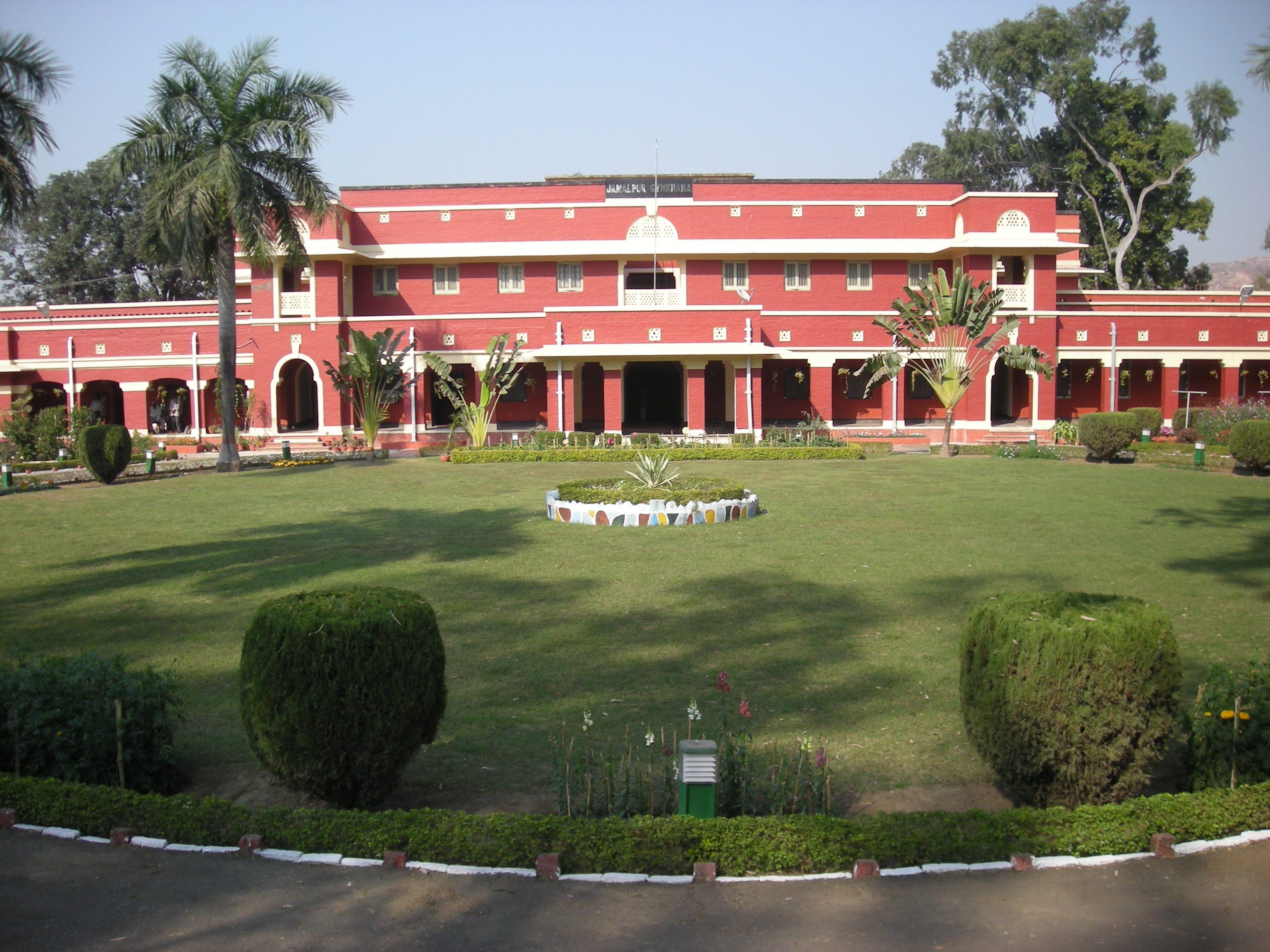 Front view of the Jamalpur Gymkhana